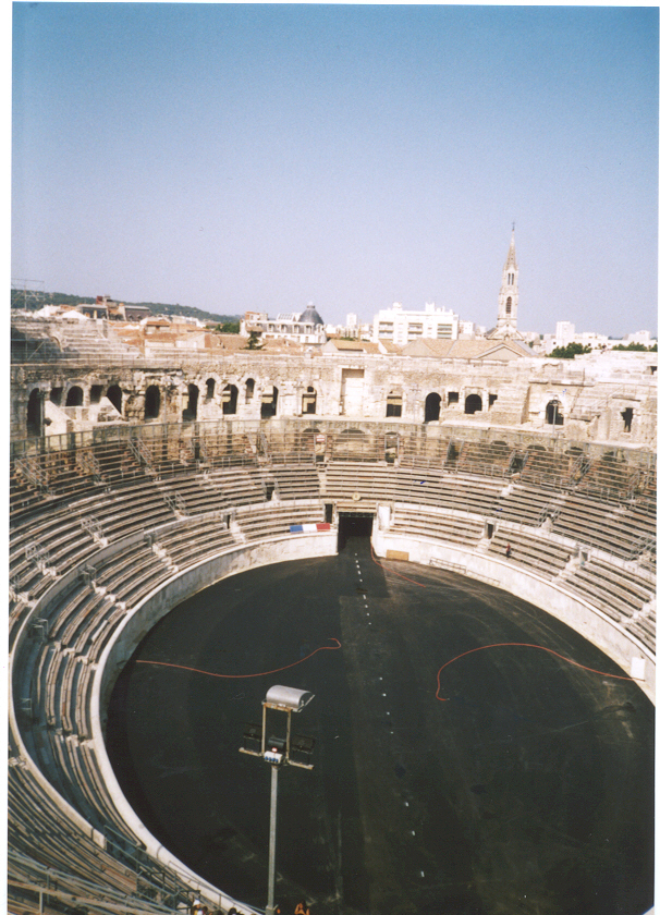 Arena in Nîmes (Gard, France).